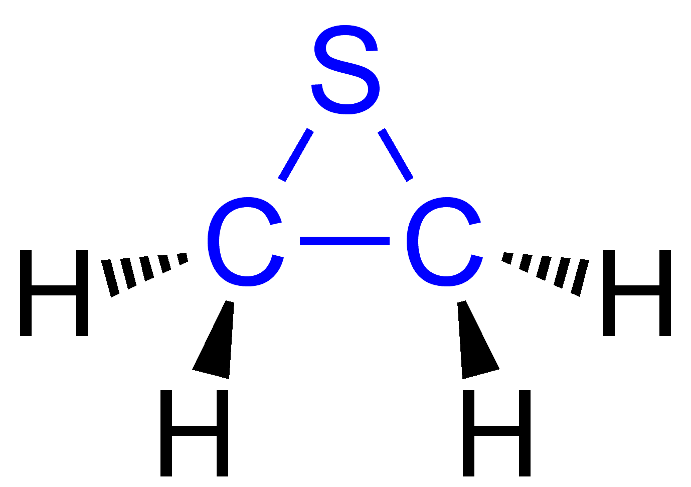 Thiiranes_Structural_Formulae